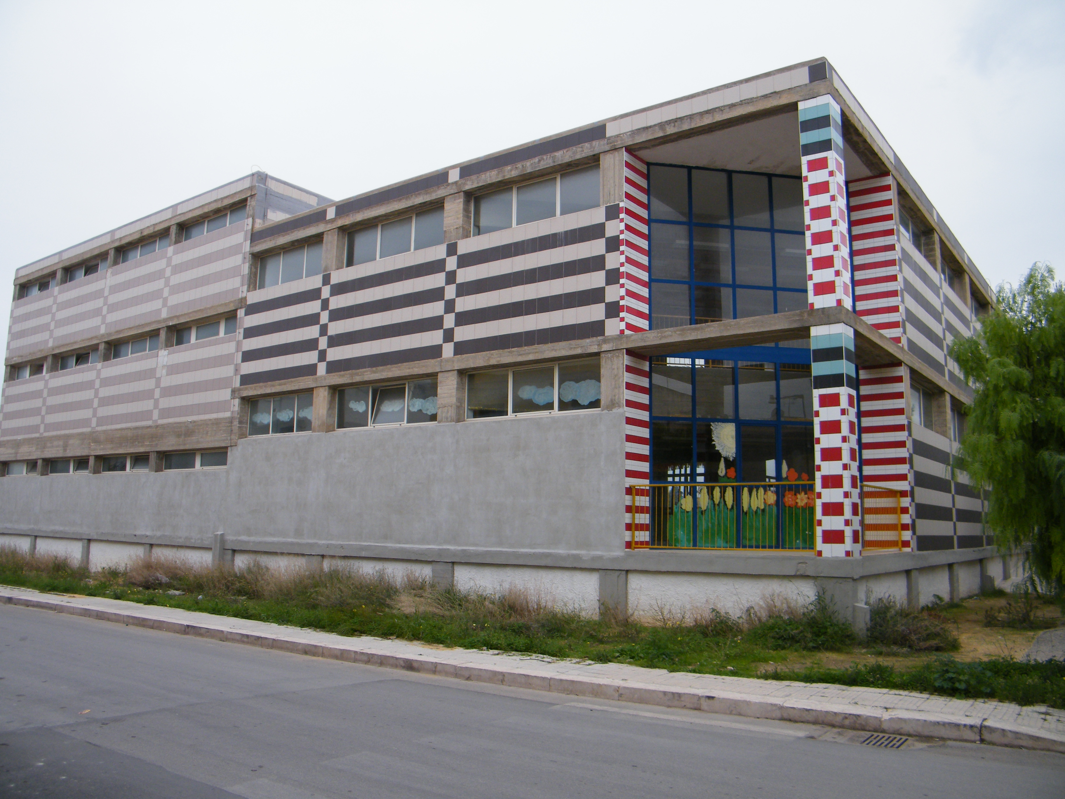 Mazara del Vallo - Emergency-Urgency Area (under renovation)